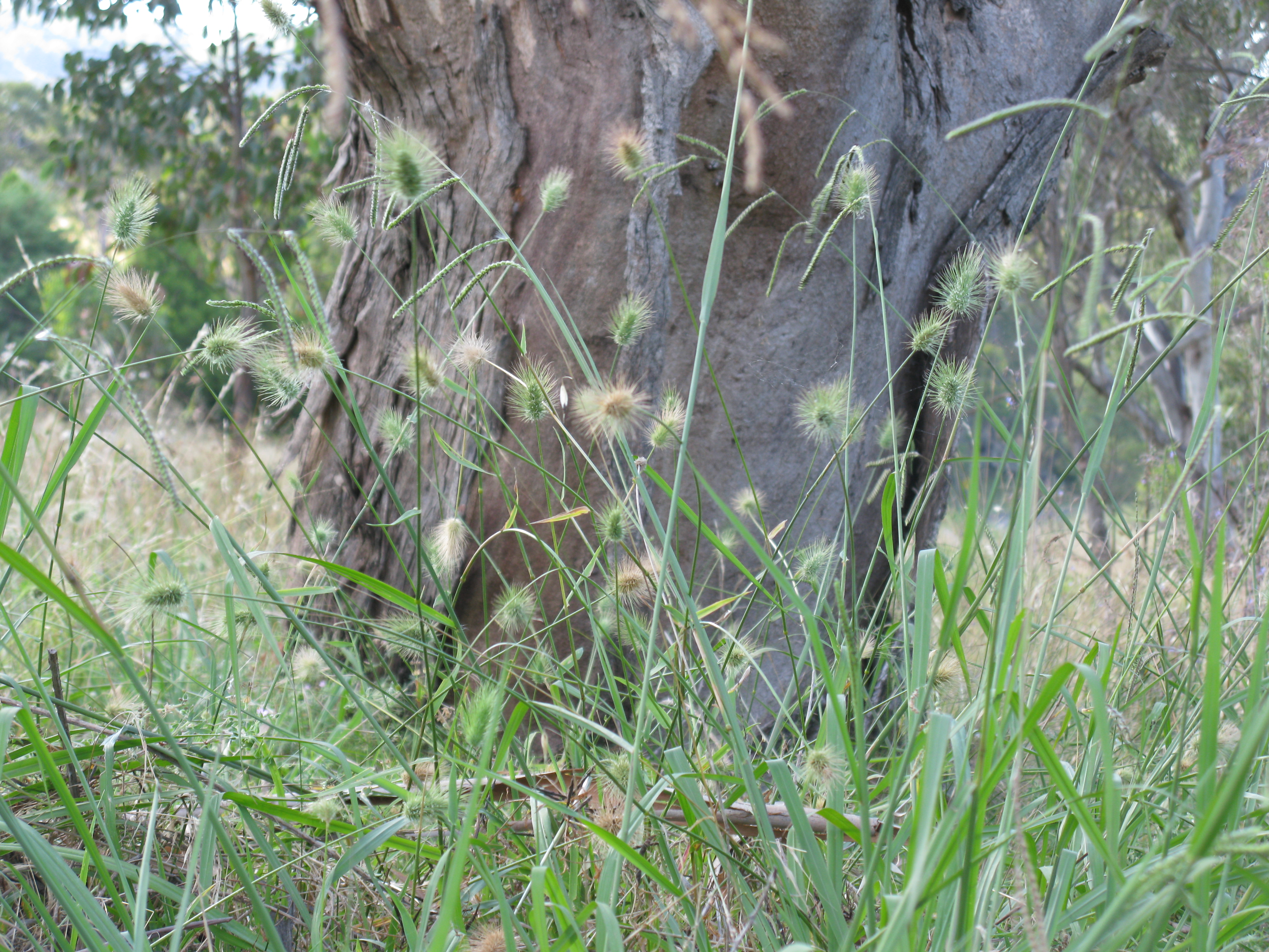 Native, cool-season, perennial, grass with slender solitary stems to 1.2 m tall that arise from a slender rhizome. Leaves are spaced along the stems. Found in moist and dappled shade conditions in woodlands and forests (especially wet sclerophyll) and by creeks. Palatable to stock, but of minor grazing value as it contributes little biomass and is sensitive to grazing and disturbance. May cause ‘stagger’ when young due to a fungus associated with the plant.